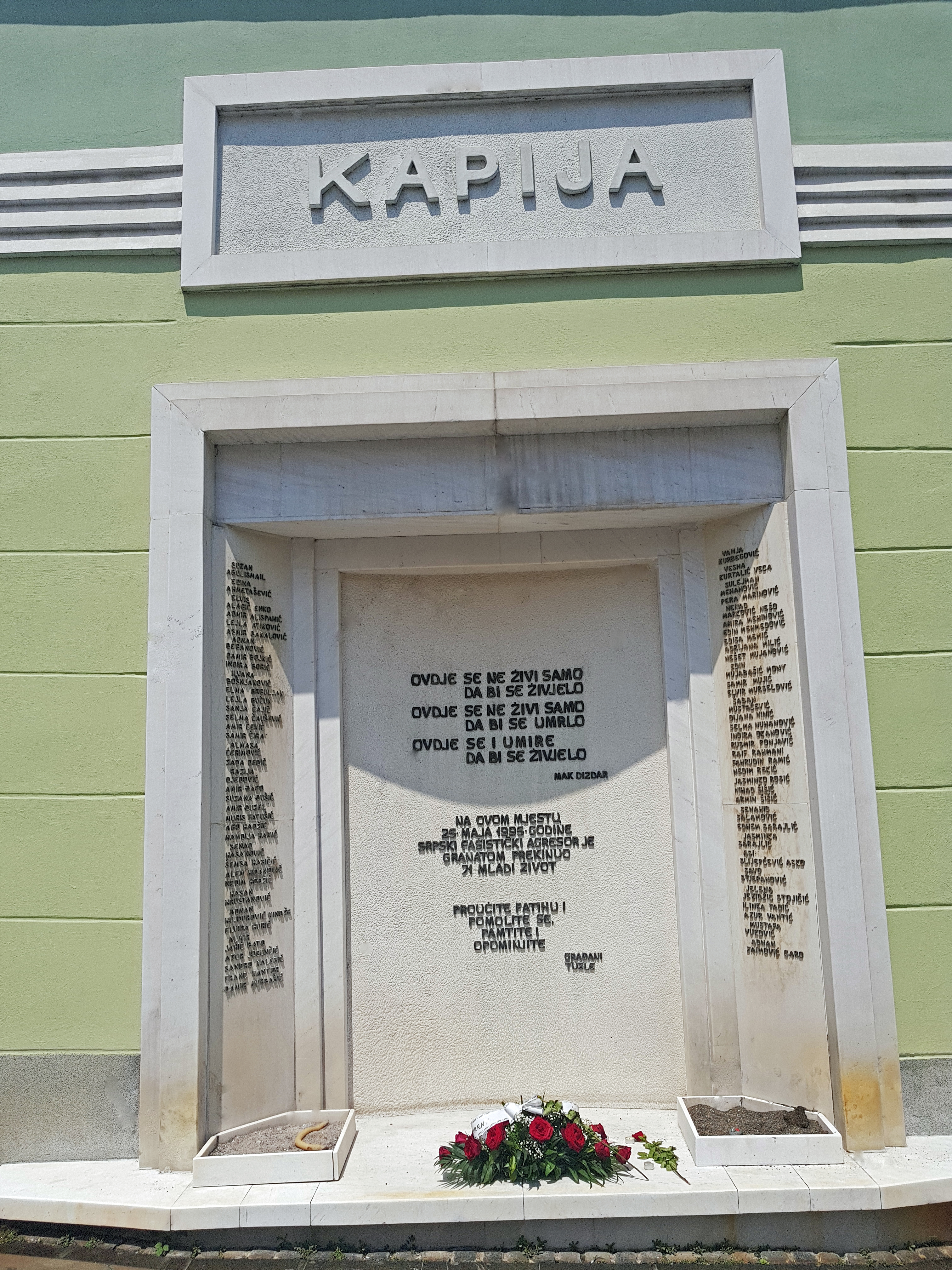 Kapija (Gate) in Tuzla, a memorial structure dedicated to the 71lives lost due to the shelling of the city square on the 25th of May, 1995.